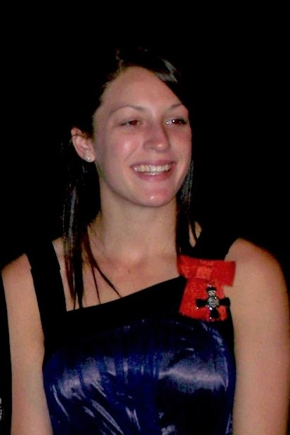 Sophie Pascoe pictured after her MNZM investiture ceremony